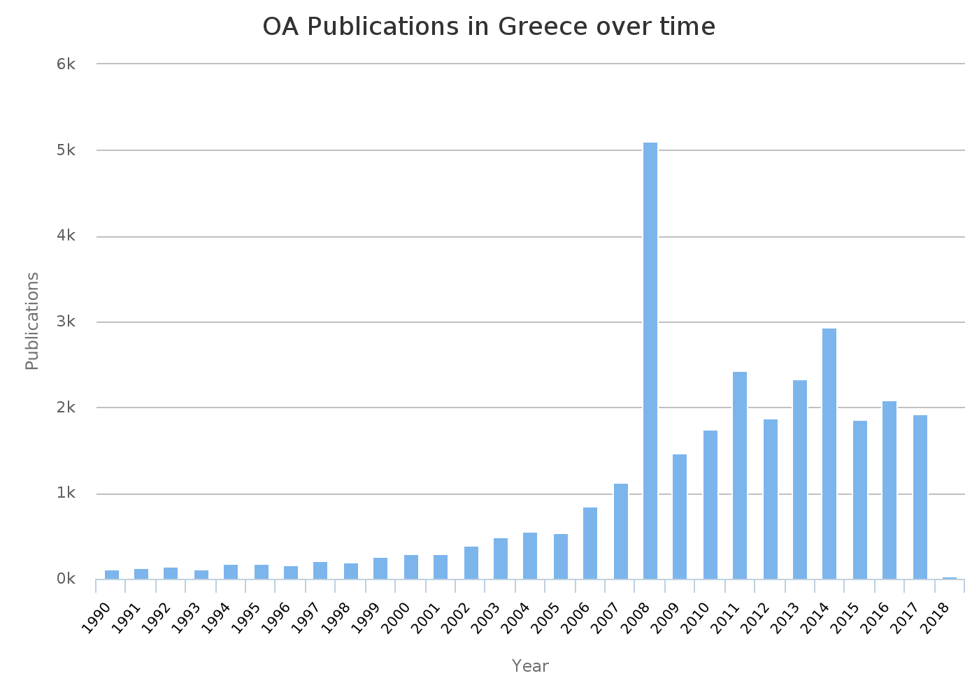 Bar graph describing open access to scholarly communication in Greece